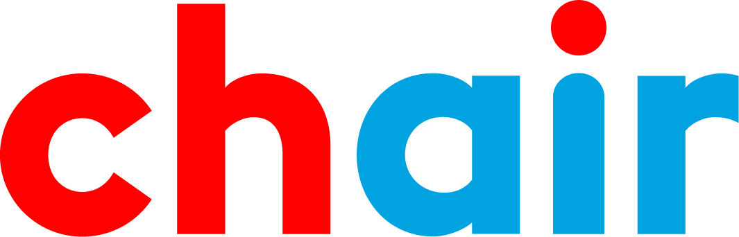 Logo of the Chair Airlines